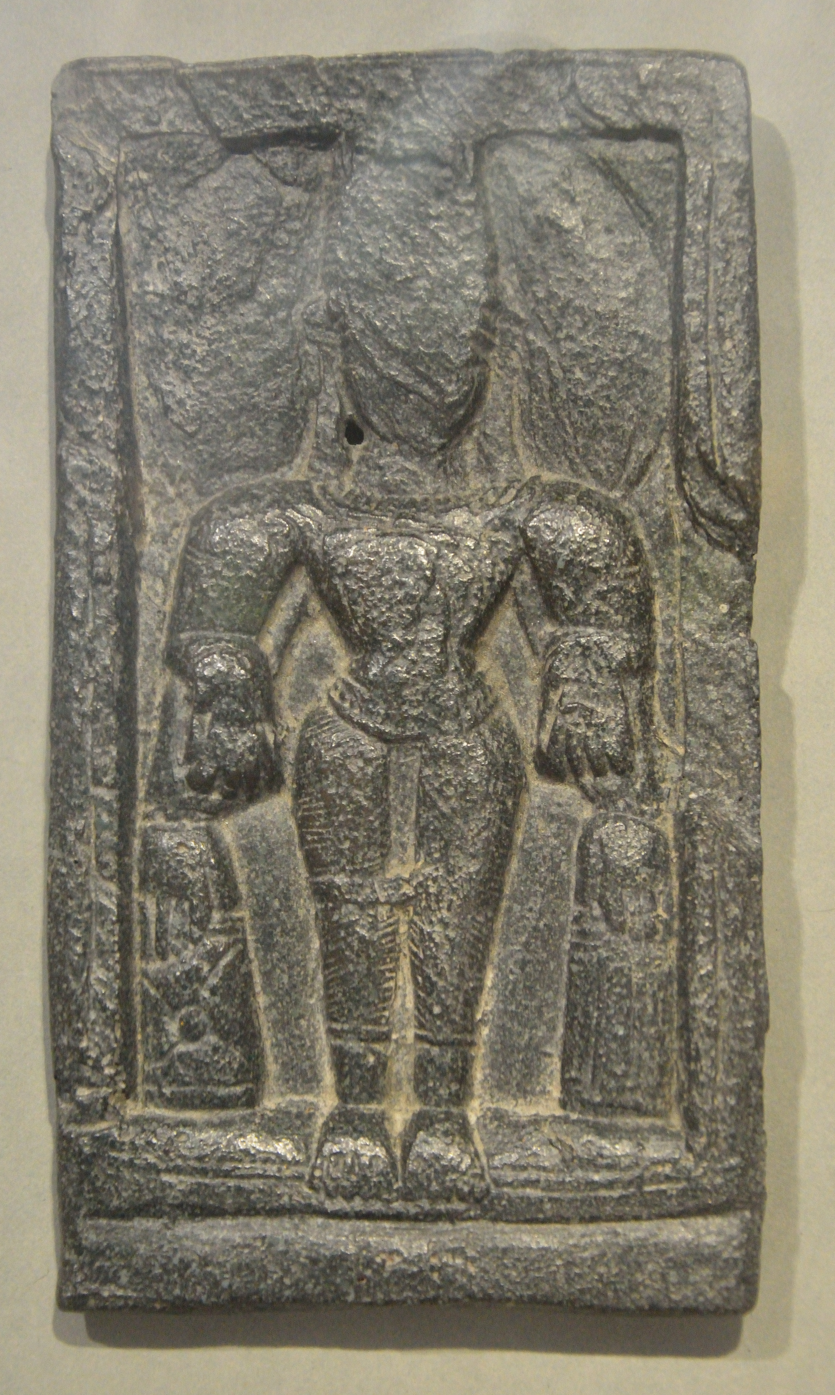 Photographed during the 'Unveiling the Earth' tilted exhibition of Archaeological Activities, was held at the Gaganendranath Shilpa Pradarshashala, Kolkata from 12th to 15th September, 2014. It was organized by the Directorate of Archaeology & Museums of Information & cultural Affairs Department, West Bengal State Government.